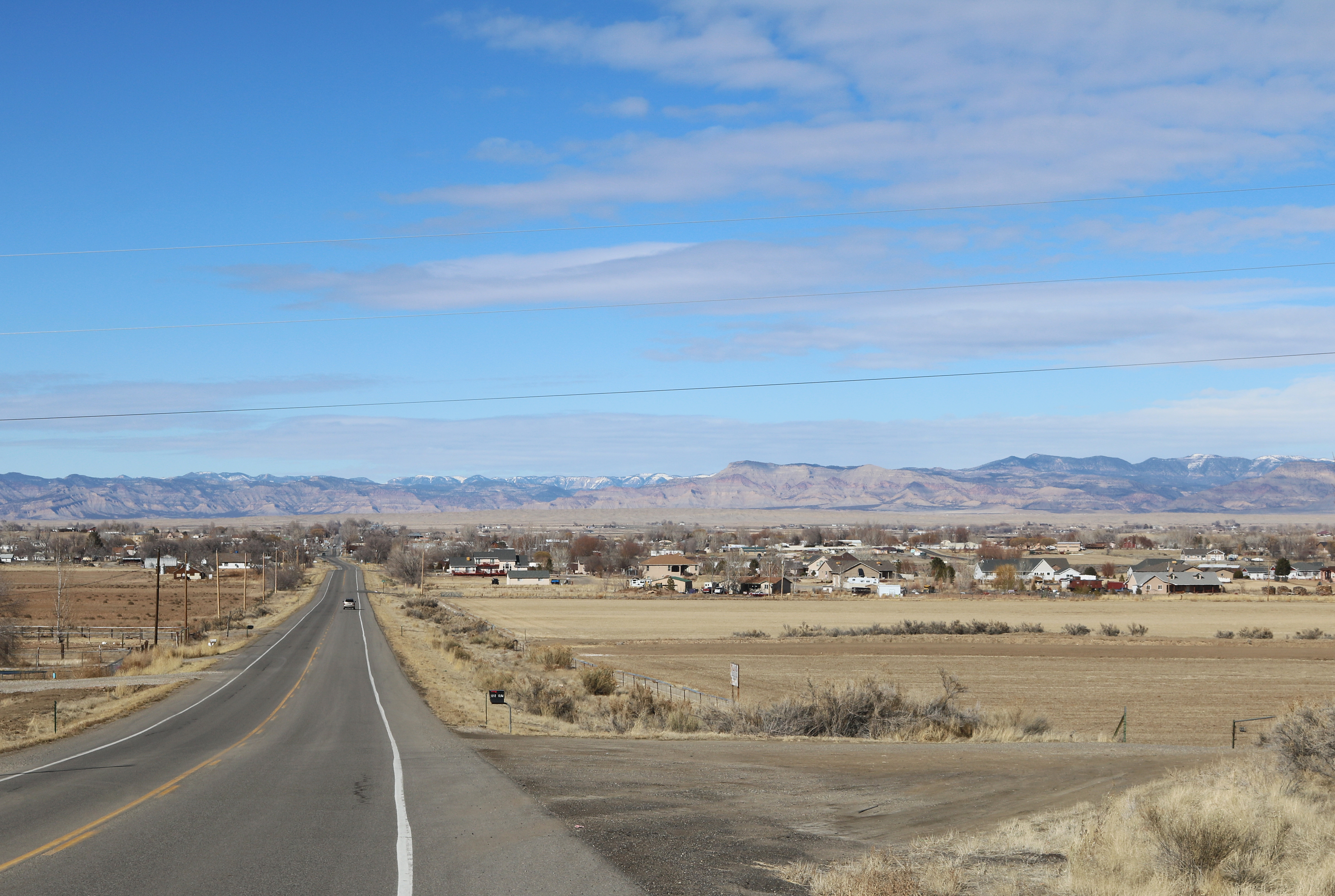 Overlooking Loma, Colorado in Mesa County. The view is from Colorado State Highway 139, just east of Interstate 70.